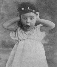 Child star Miriam Battista pictured in 1916 at the age of four. The photo was published in 1916 in Moving Picture Stories.